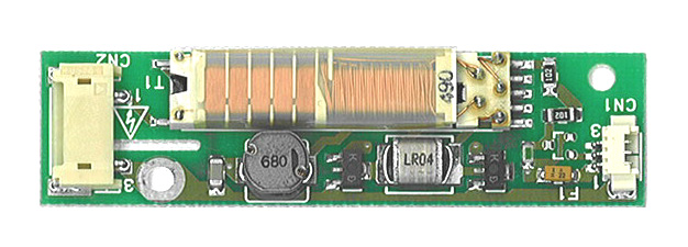 The inverter useing the resonance transformer